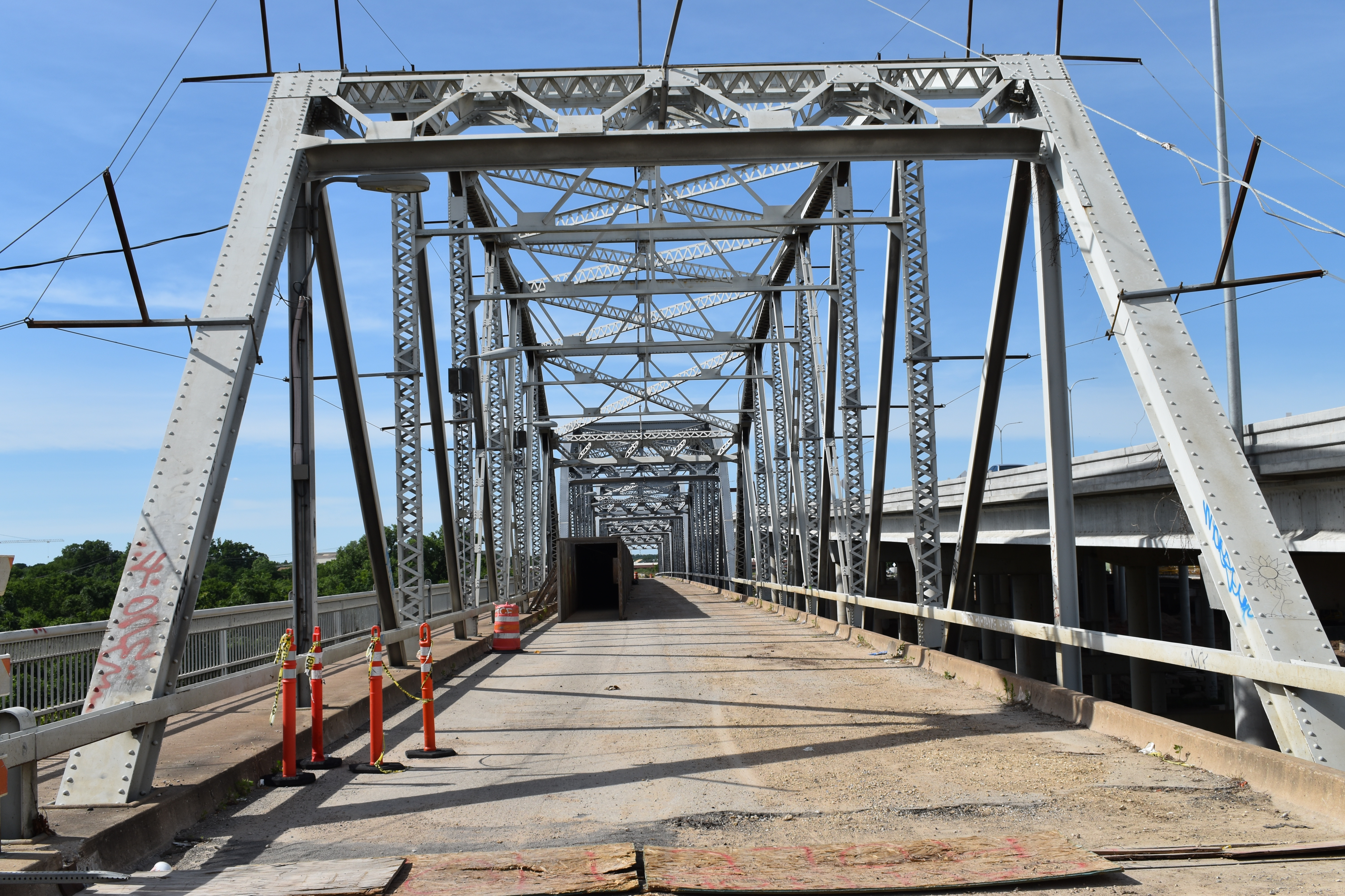 Montopolis Bridge in the process of being converted to pedestrian/cycling crossing